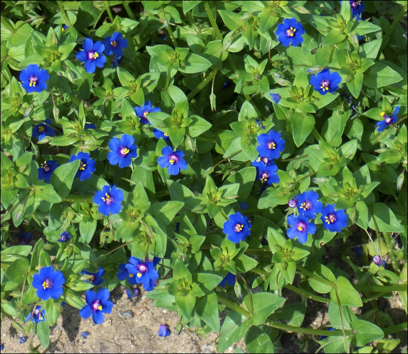 Anagallis arvensis, Iris Hill, Rishon LeZion, Israel, Bio-Blitz Conservation Survey, 27.2.2016